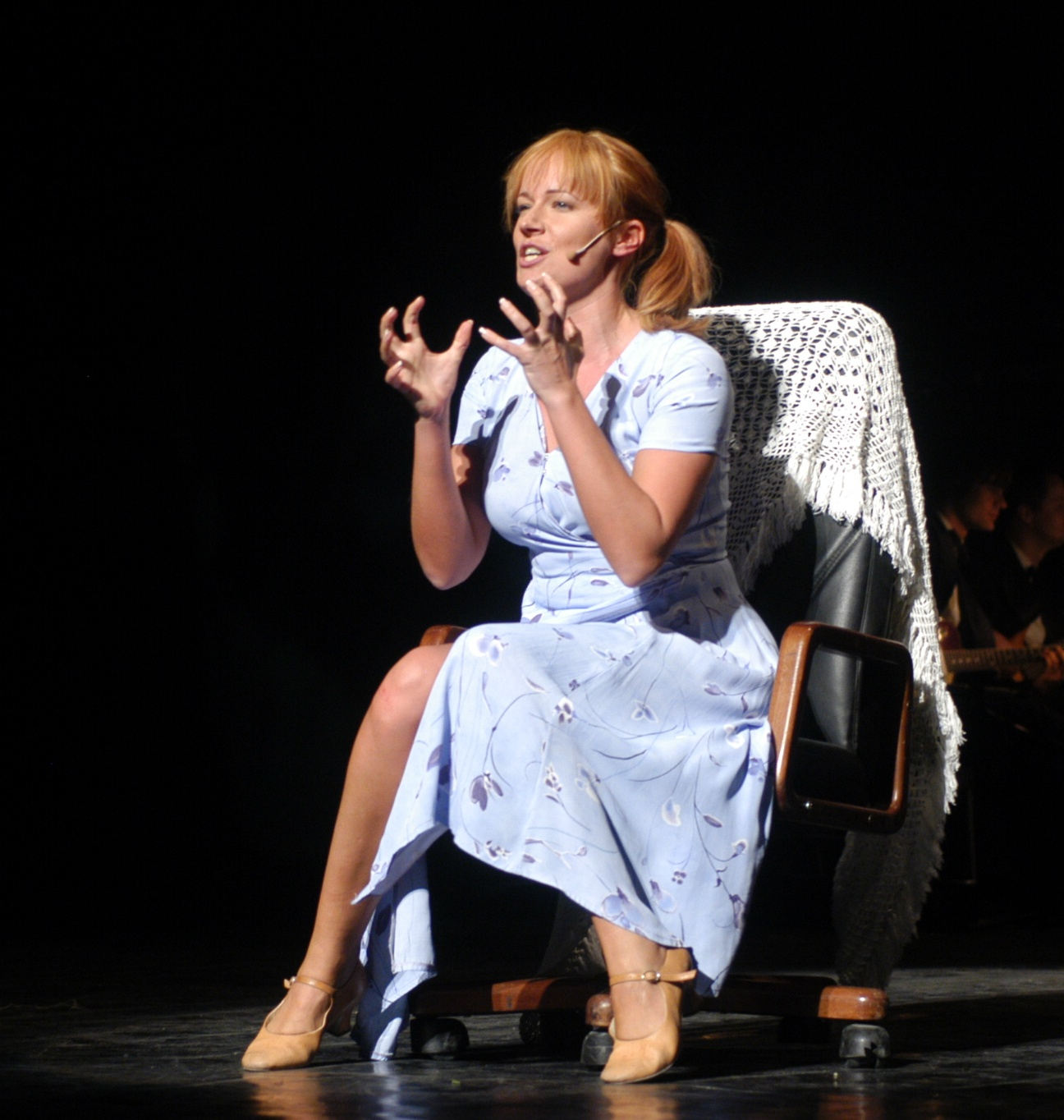 Alena Antalová